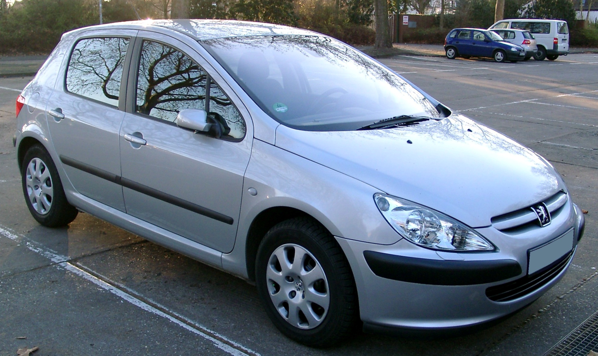 Peugeot 307